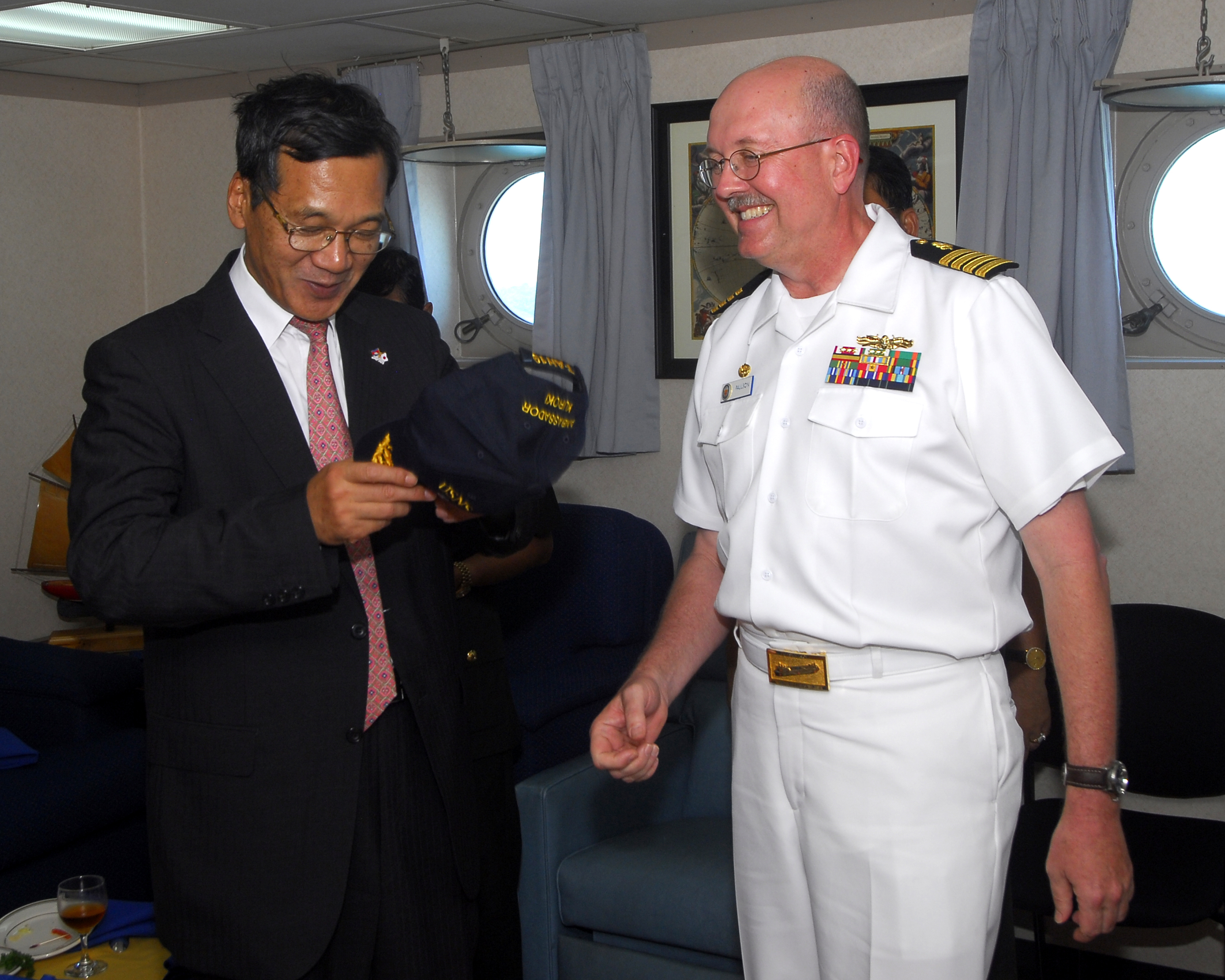 SIHANOUKVILLE, Cambodia (June 16, 2010) Capt. Jeffrey W. Paulson, commanding officer of the medical treatment facility aboard the Military Sealift Command hospital ship USNS Mercy (T-AH 19) presents a command ball cap to Japanese Ambassador to Cambodia Masarumi Kuroki. Mercy is deployed as part of Pacific Partnership 2010, the fifth in a series of annual U.S. Pacific Fleet humanitarian and civic assistance endeavors to strengthen regional partnerships. (U.S. Navy photo by Mass Communication Specialist 2nd Class Brian Gaines/Released)